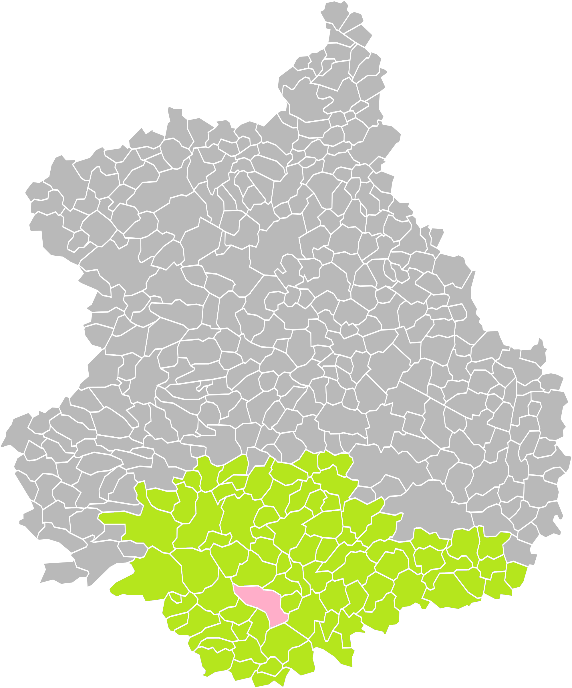 Location of the commune of Châteaudun in the arrondissement of Châteaudun (Eure-et-Loir)